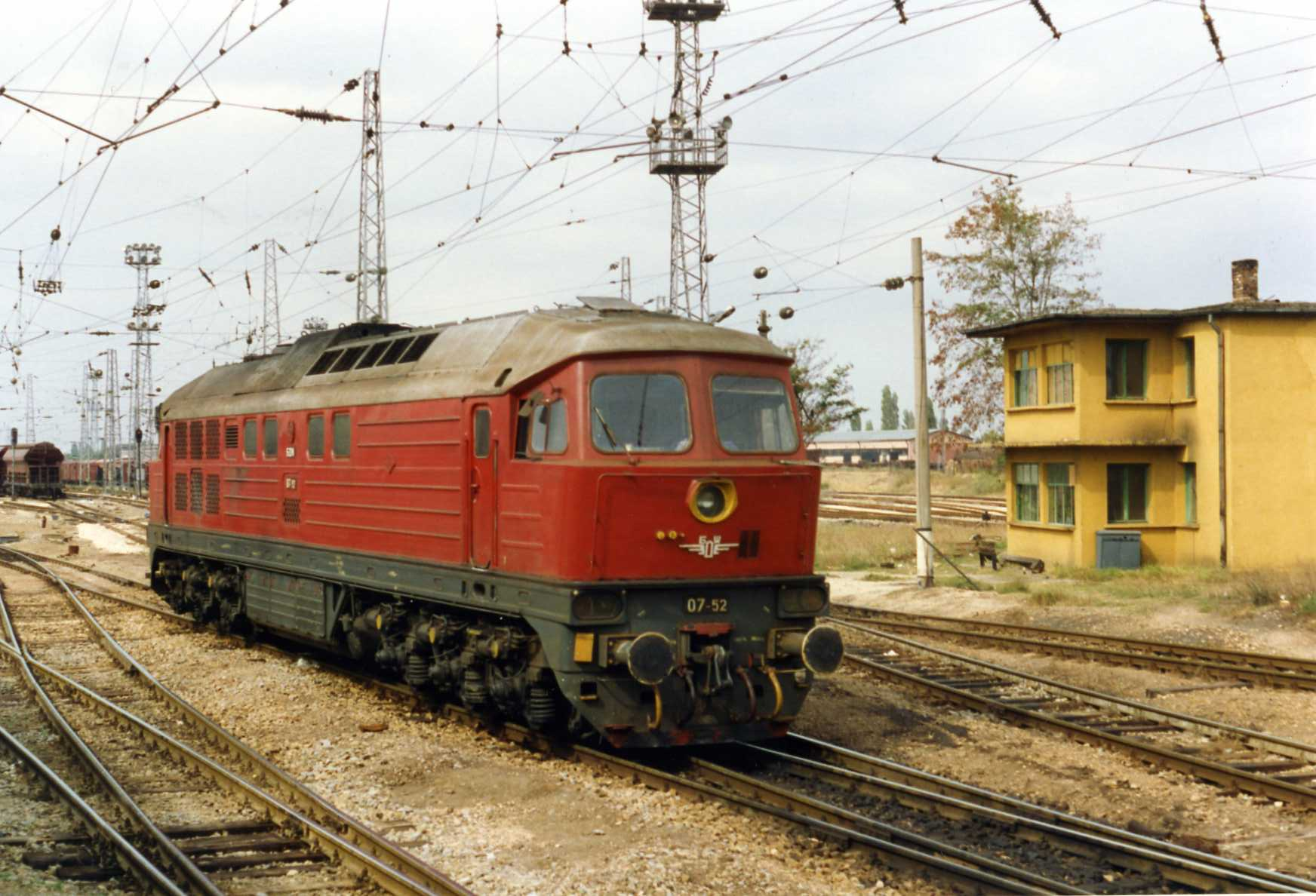 One of the class of locomotives, more familiar as Baureihe 132 in the GDR, in Ruse station. Made in Voroshilovgrad, UkrSSR.